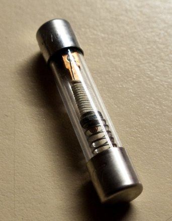 Taken out of an old Tektronix 442 oscilloscope I bought to repair for my electronics ventures and spotted a fuse holder in the back, where this was. It's unlike any fuse I've seen before. Written on this is "250 VOLT" "BUSS MDL 3/10" It's a Bussmann MDL-3/10 Time Delay Glass Fuse. Made by Cooper Bussmann, St. Louis, MO 63178, USA. Fuse Current 3/10 Amps, Fuse Holder Code G, Diameter 1/4 inch, Length 1 1/4 inches, Interrupt Rating 200 amps @ 250 VAC/10 kiloamperes @ 125 VAC --1-1111 (talk) 11:54, 23 November 2009 (UTC)